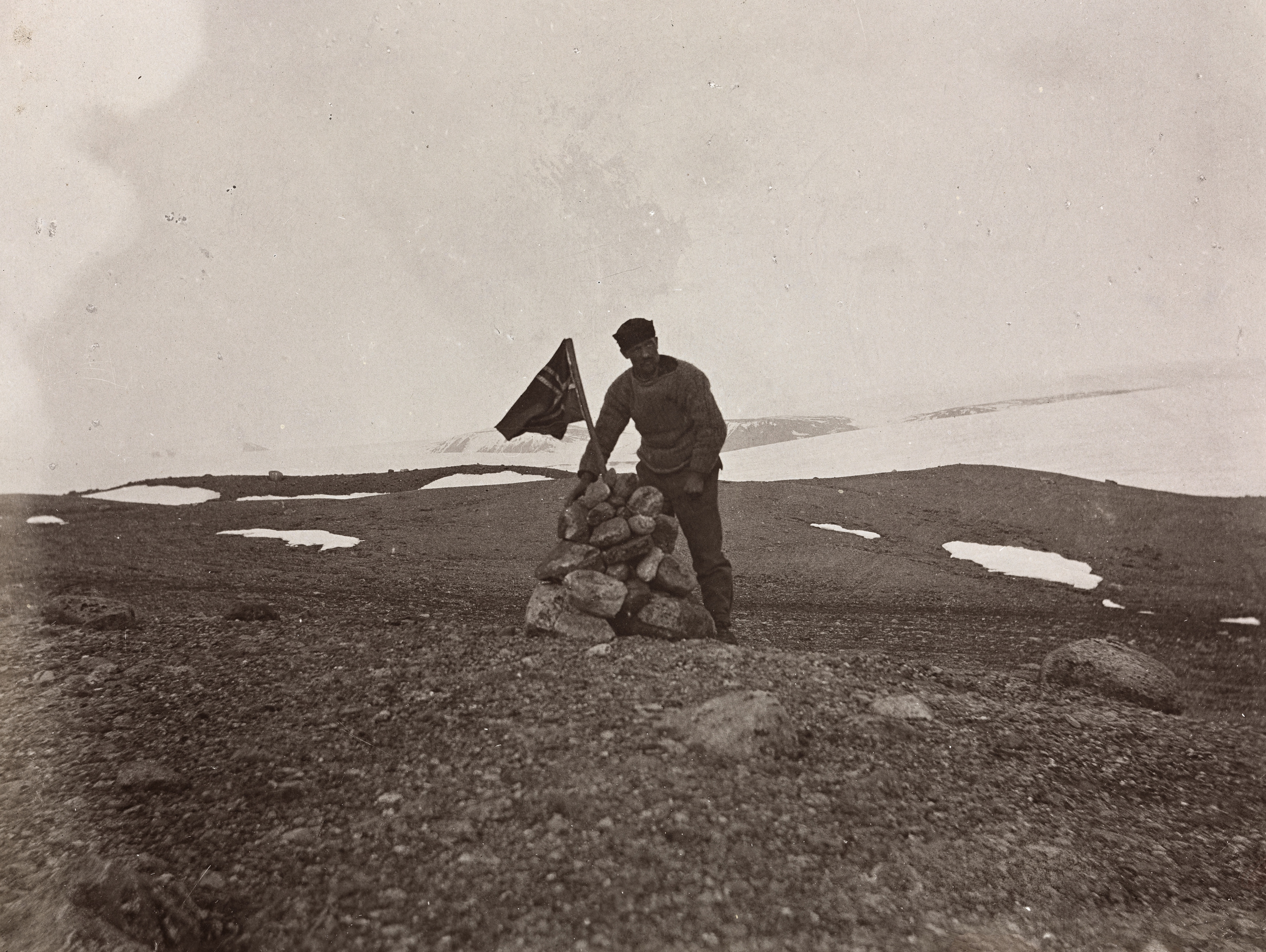 Beskrivelse / Description: 2. Fram-ekspedisjon: Nord-vest-Grønland og øyene nord for Øst-Canada : 1898-1902 / 2nd "Fram" expedition : Northwest Greeland and the islands North of East Canada Dato / Date: mai 1900 Sted / Place: Canada, Nunavut, Sverdrup Islands, Axel Heibergs Land / Axel Heiberg Island Fotograf / Photographer: ukjent / unknown Digital kopi av original / Digital copy of original: Eier / Owner Institution: Nasjonalbiblioteket / National Library of Norway Lenke / Link: Bildesignatur / Image Number: bldsa_SVpos_0059